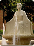 Picture of the Lady of the Mist on Louisiana Tech's campus.